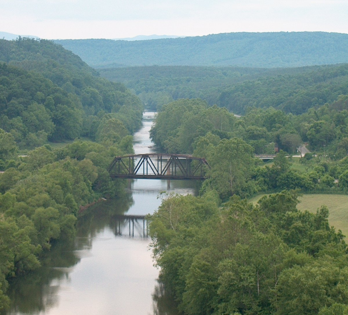 The Tye River in Nelson County, Virginia, near where it enters the James River. © 2005 Wyatt Greene